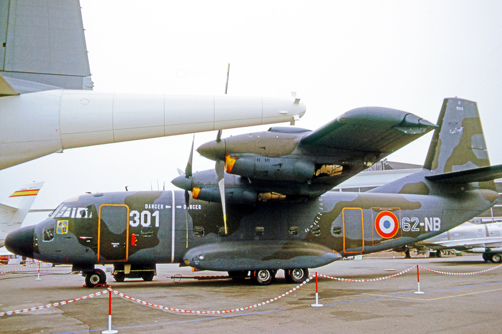 Breguet Br941S No. 2 coded 62-NB of the French Air Force exhibited at the 1971 Paris Air Show